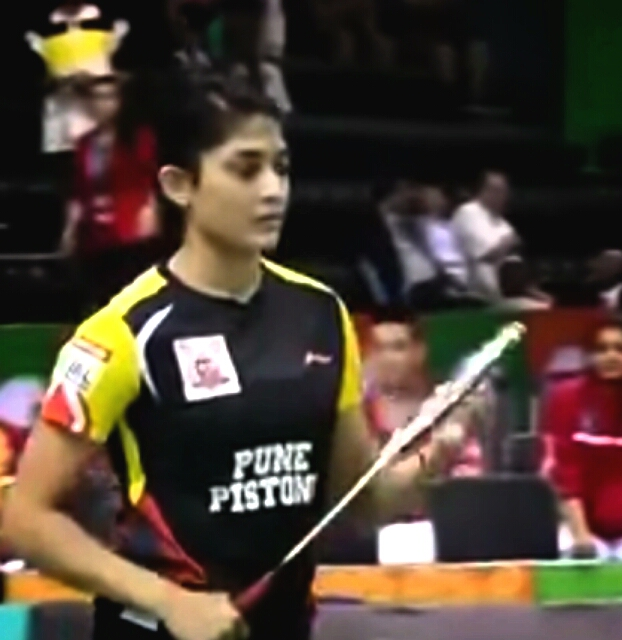 Ashwini Ponnappa